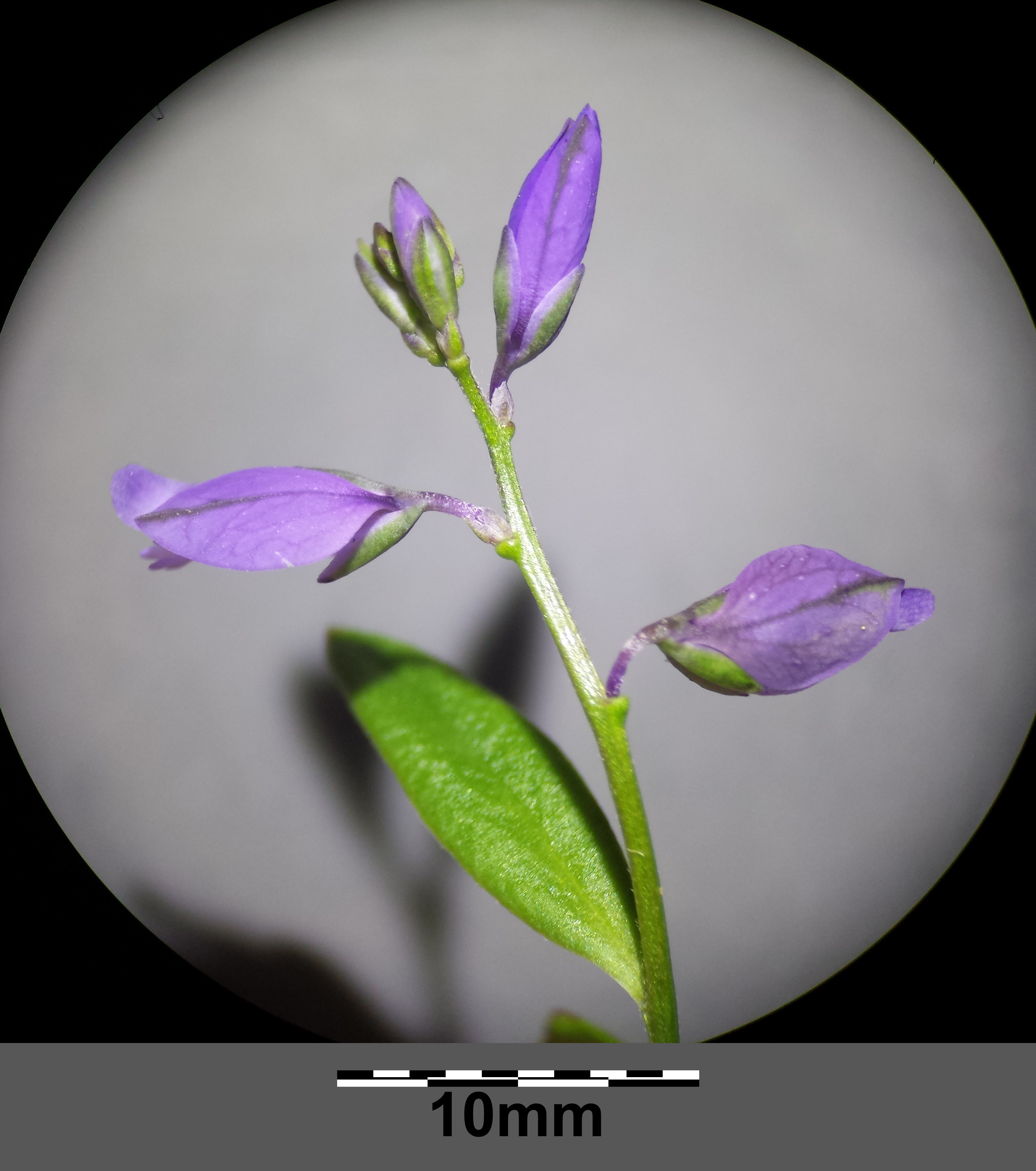 Inflorescence Taxonym: Polygala vulgaris subsp. vulgaris ss Fischer et al. EfÖLS 2008 ISBN 978-3-85474-187-9 Location: nearby Riebeis, Rappottenstein, district Zwettl, Lower Austria - ca. 750 m a.s.l. Habitat: wayside